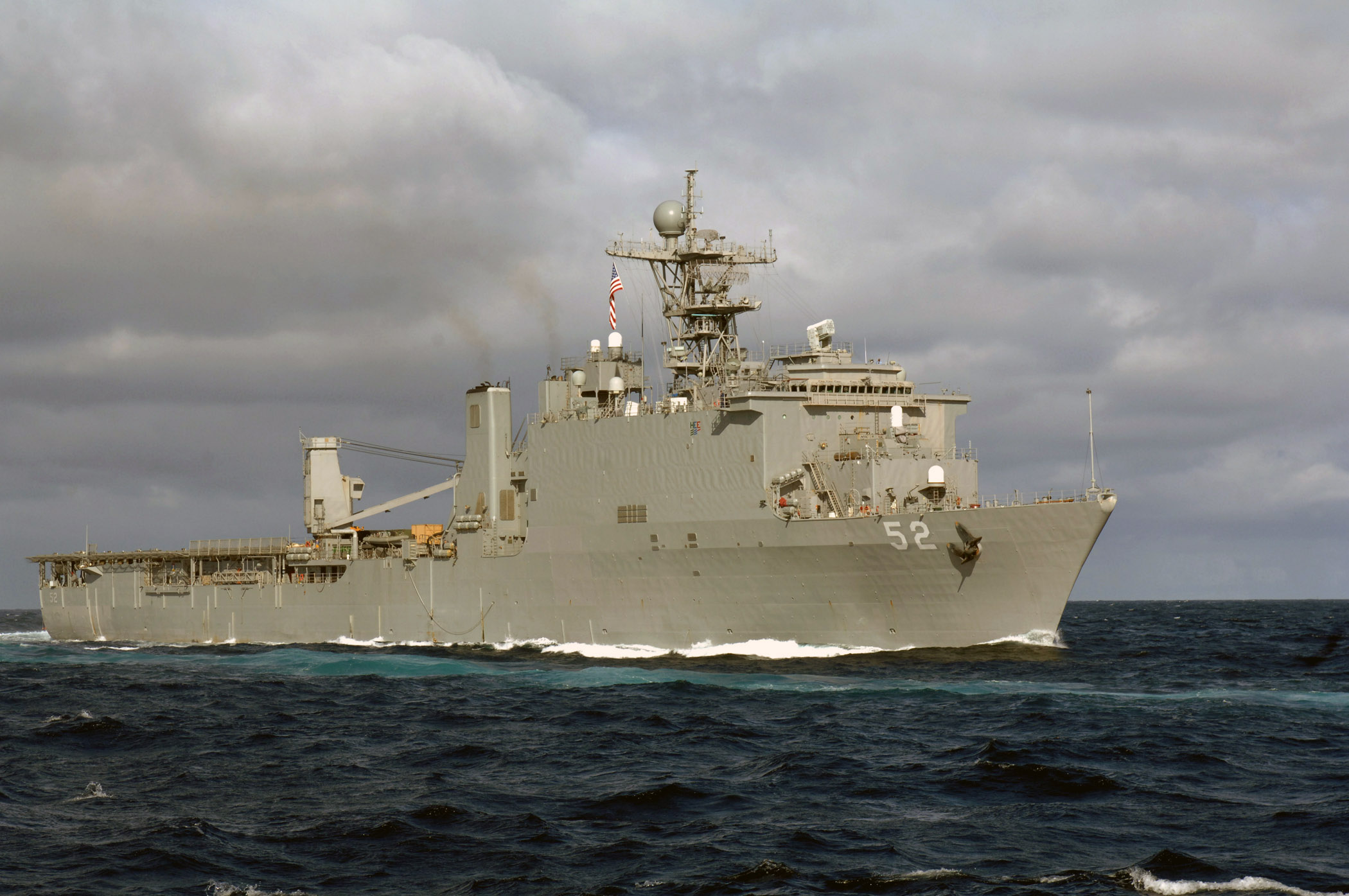 PACIFIC OCEAN (June 20, 2007) - The dock landing ship USS Pearl Harbor (LSD 52) operates in the Pacific Ocean in support of UNITAS Pacific 2007 which supports Partnership of the Americas (POA) 2007. POA focus is to enhance relationships with partner nations through a variety of exercises and events at sea and on shore throughout South America, Latin America, and the Caribbean. U.S. Navy photo by Mass Communication Specialist 2nd Class Lenny M. Francioni (RELEASED)